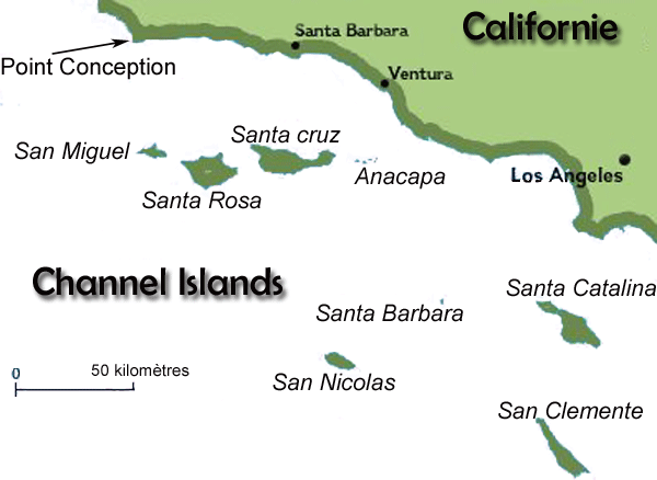 Channel Islands, in front of Los Angeles, USA